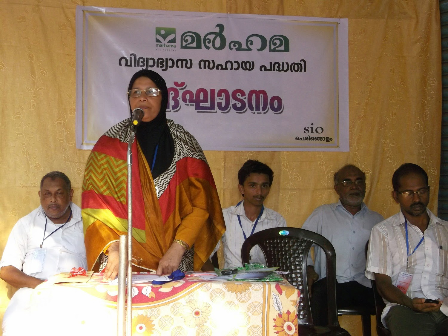 Marhama Edu-support Programme 2014-15 Inaguration- P.Asmabi